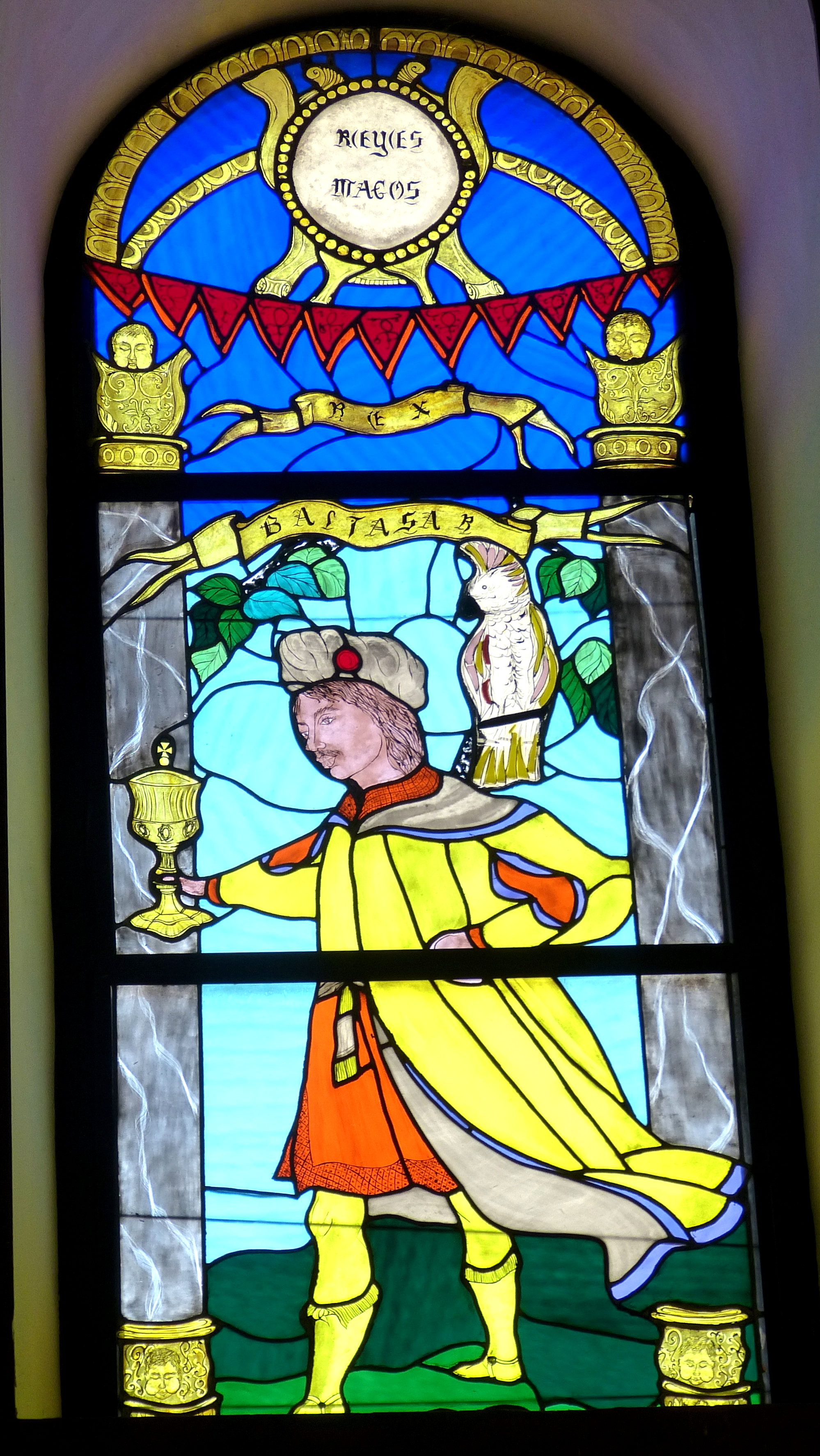 Agaete ( Gran Canaria ). Iglesia de la Concepción ( 1875 ) - Stained glass window showing Balthazar, one of the Three Wise Men.